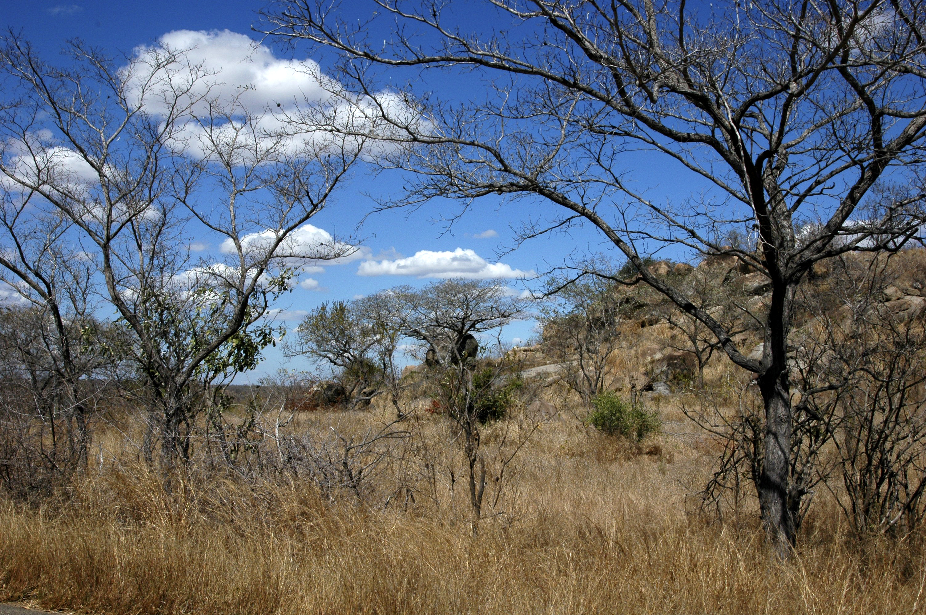 Late winter landscape in the southern Kruger Park, with leafless deciduous Silver terminalia and Sickle bush in the foreground, and Marula and Red bushwillow at the base of the granite hill.